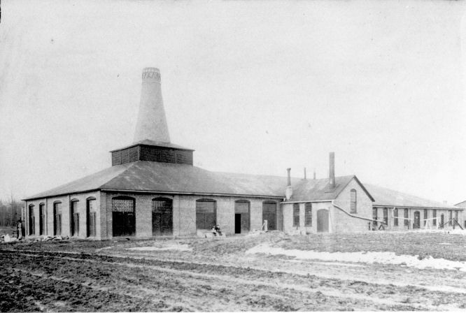 Sneath Glass factory at original Hartford City Indiana location on North Walnut Street. Plant was moved to Wabash Avenue later.